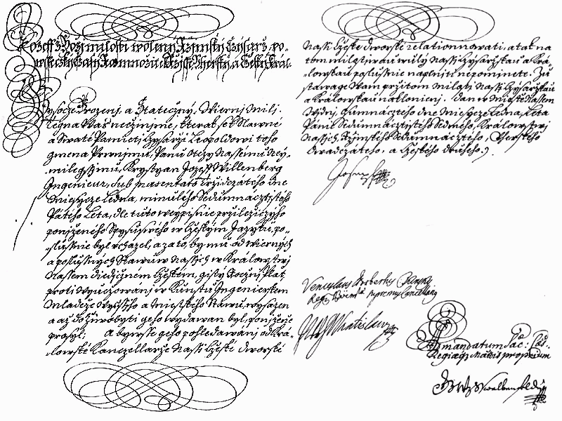 The first and last page of a rescript of Joseph I., HRE, allowing creation of the Czech Polytechnics